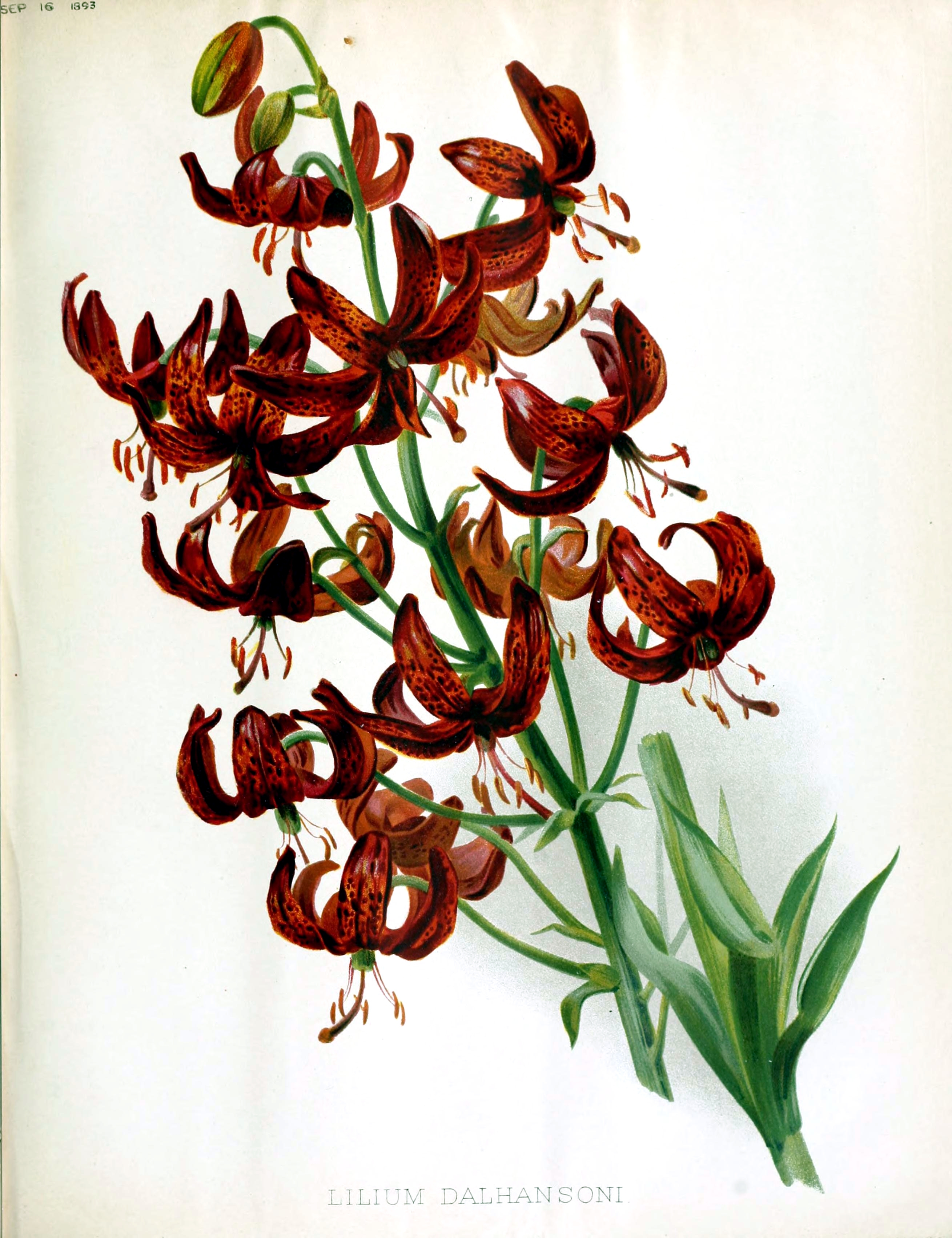 Lilium x dalhansonii (L martagon var dalmaticum x L hansonii)